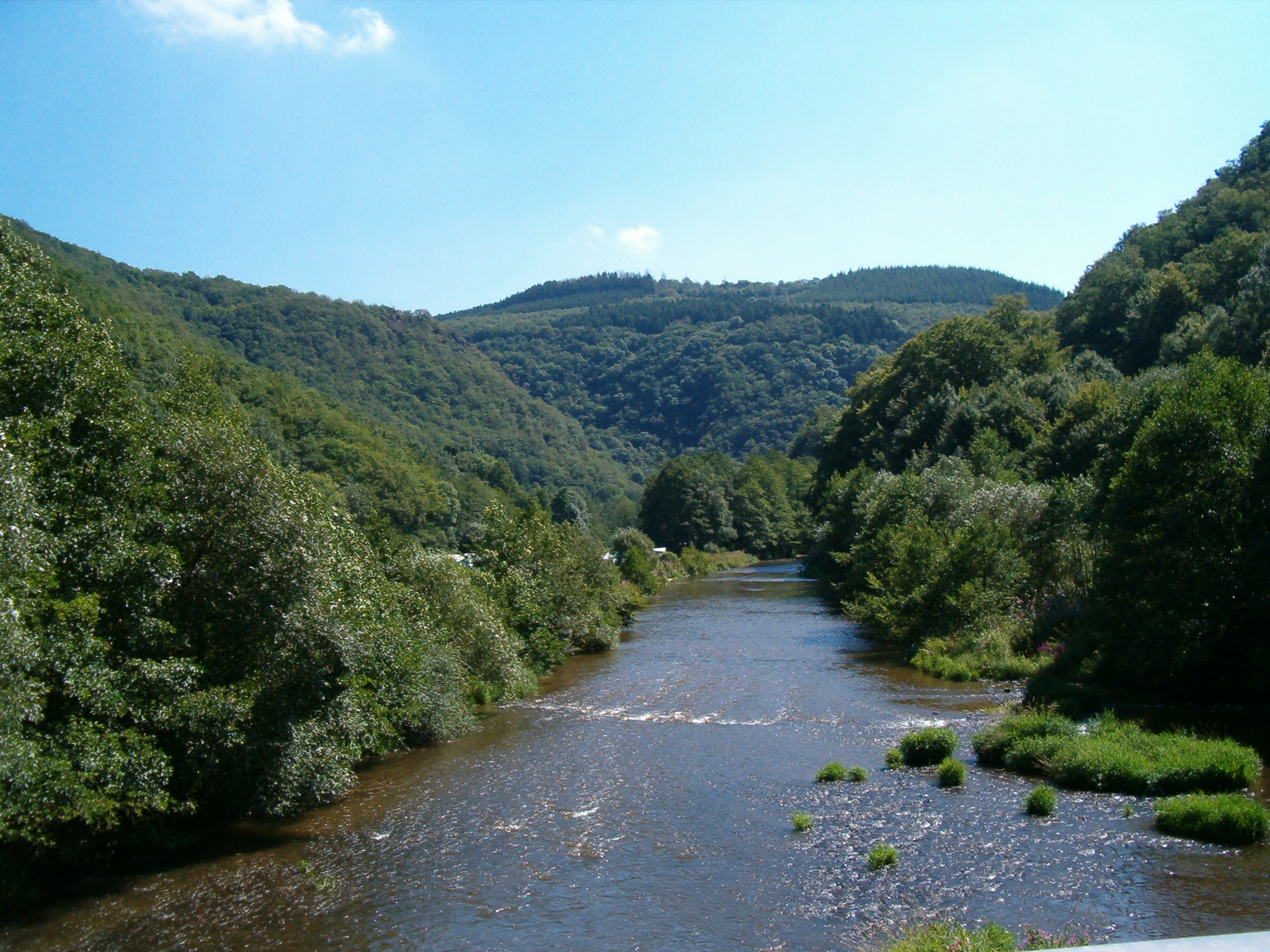 The river the Our (self made picture)